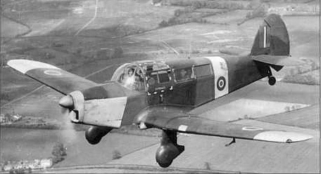 Original image taken by a British government employee prior to 1956. Photo found on